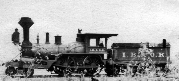 IB&O Engine #1 was the first of several 4-4-0 locomotives operated by the Irondale, Bancroft & Ottawa Railway in central Ontario, Canada. #1 was purchased from the Grand Trunk Railway in 1886. Samuel Edward Hancock, its first engineer, nicknamed it "Mary Ann" after his wife. Precise details are not clear, but it appears #1 was originally built as a 2-4-0 at 5'6" broad gauge by Birkenhead in the UK in 1855. It was converted to standard gauge some time in 1872-74, and sold to the Grand Trunk. It is presumed to have been scrapped some time between 1907 and 1910.